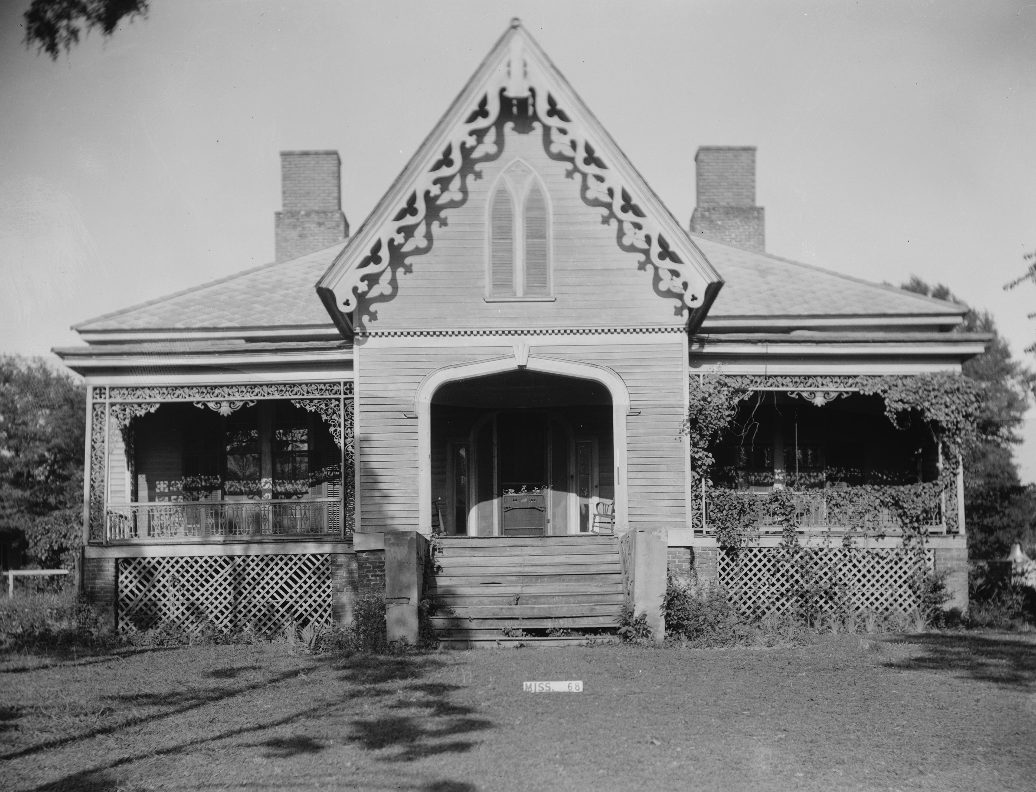 Front of the Manship House, located at 412 E. Fortification Street in Jackson, Mississippi, United States. Built in 1857 as the home of Charles Henry Manship, it is listed on the National Register of Historic Places.